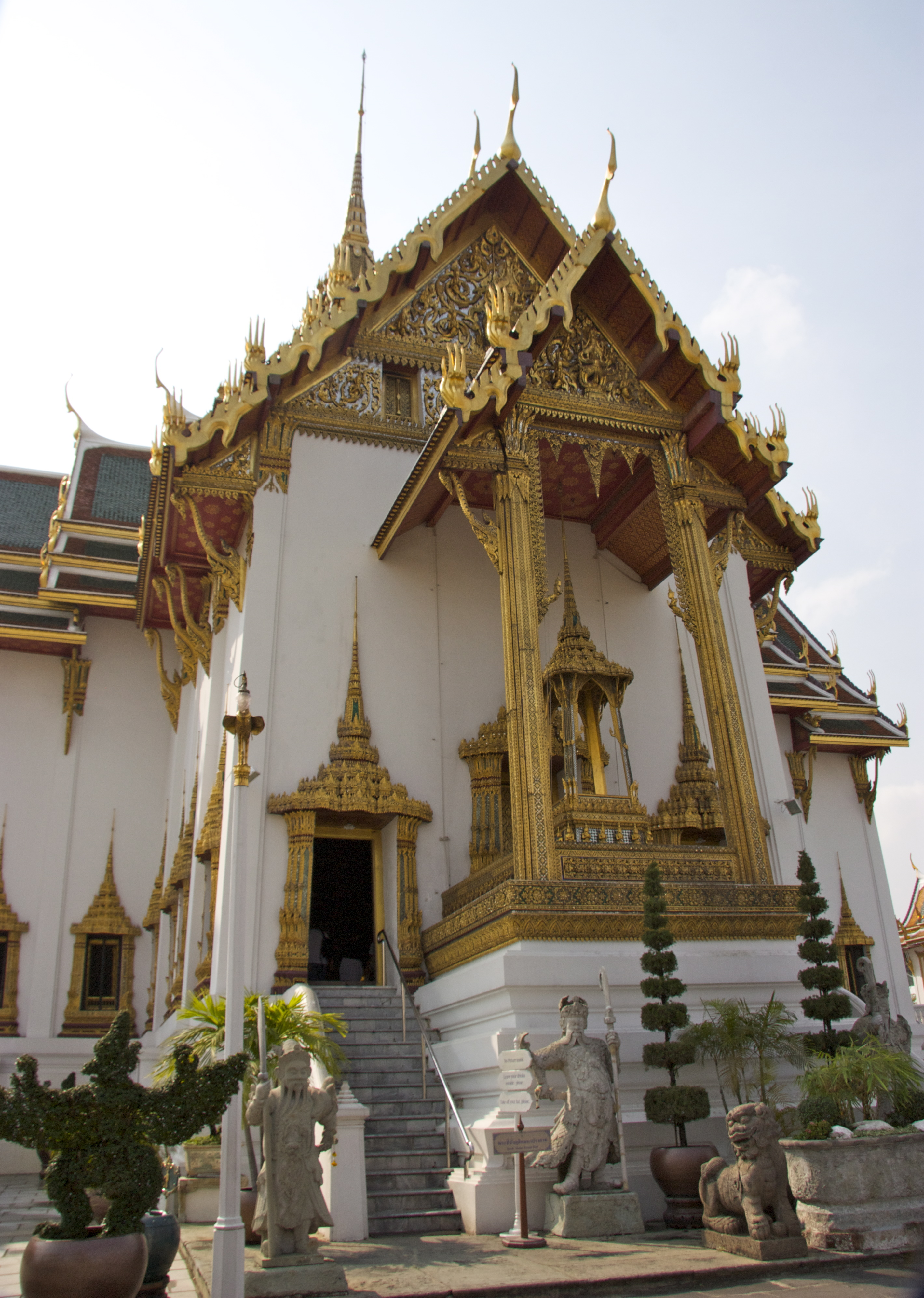 Dusit Mahaprasat Throne Hall, Grand Palace, Bangkok, Thailand